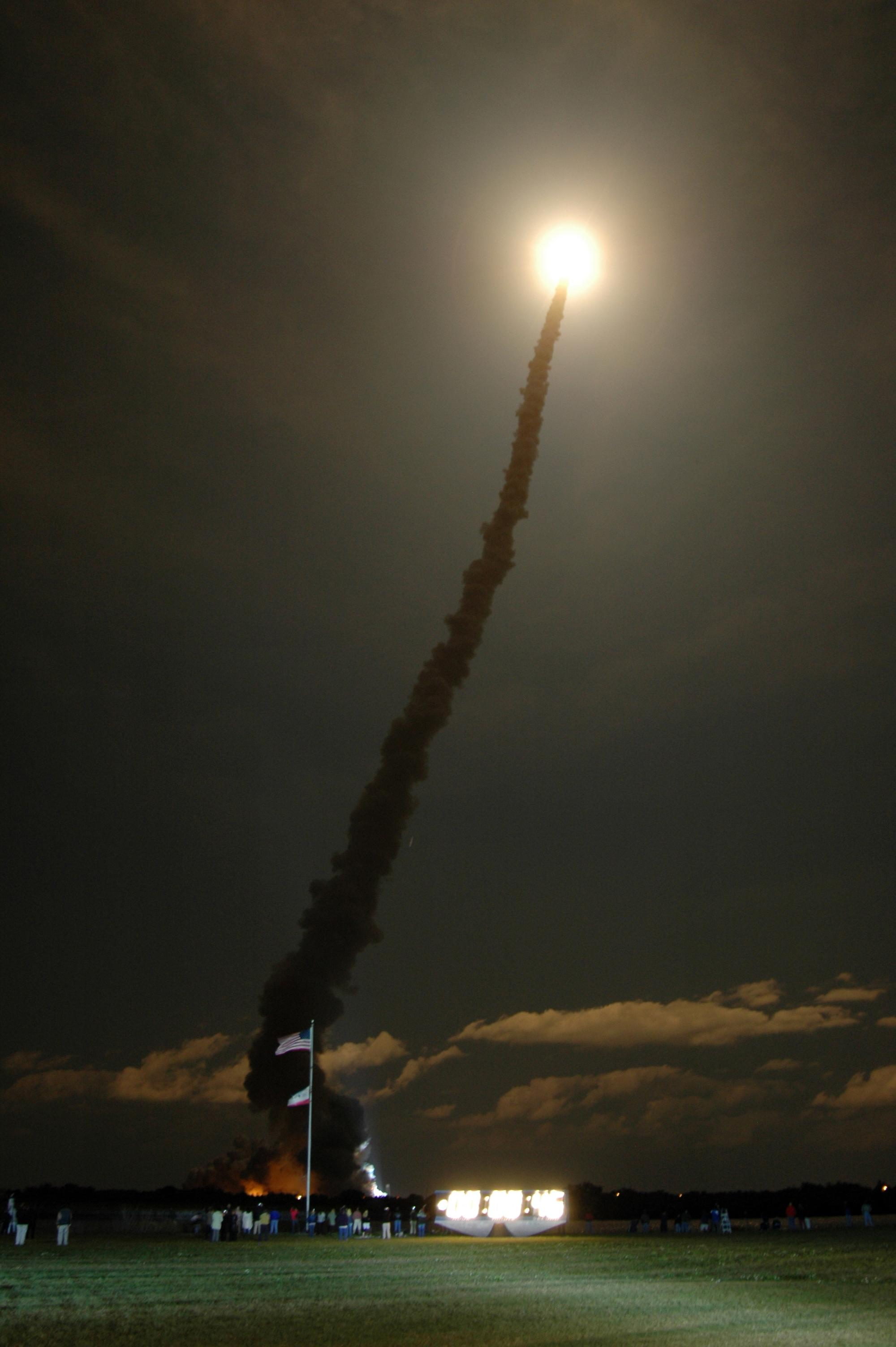 STS-116 launch of Discovery.